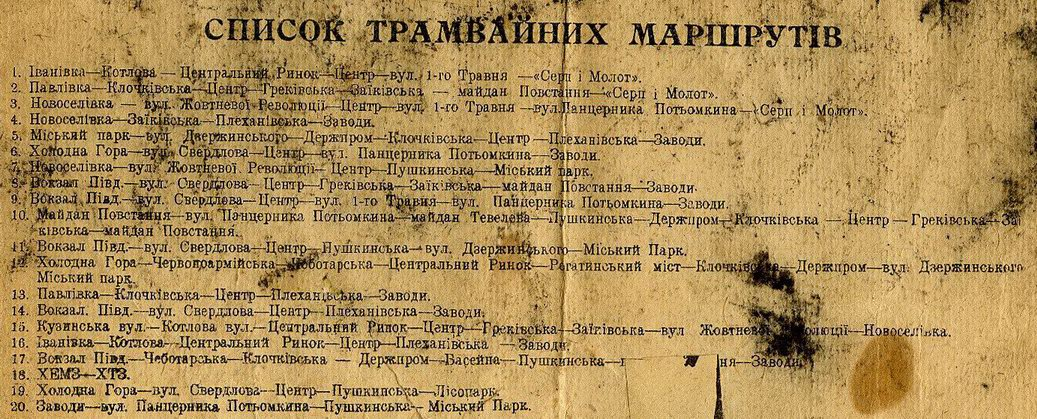 Kharkov Trams Numbers 1932